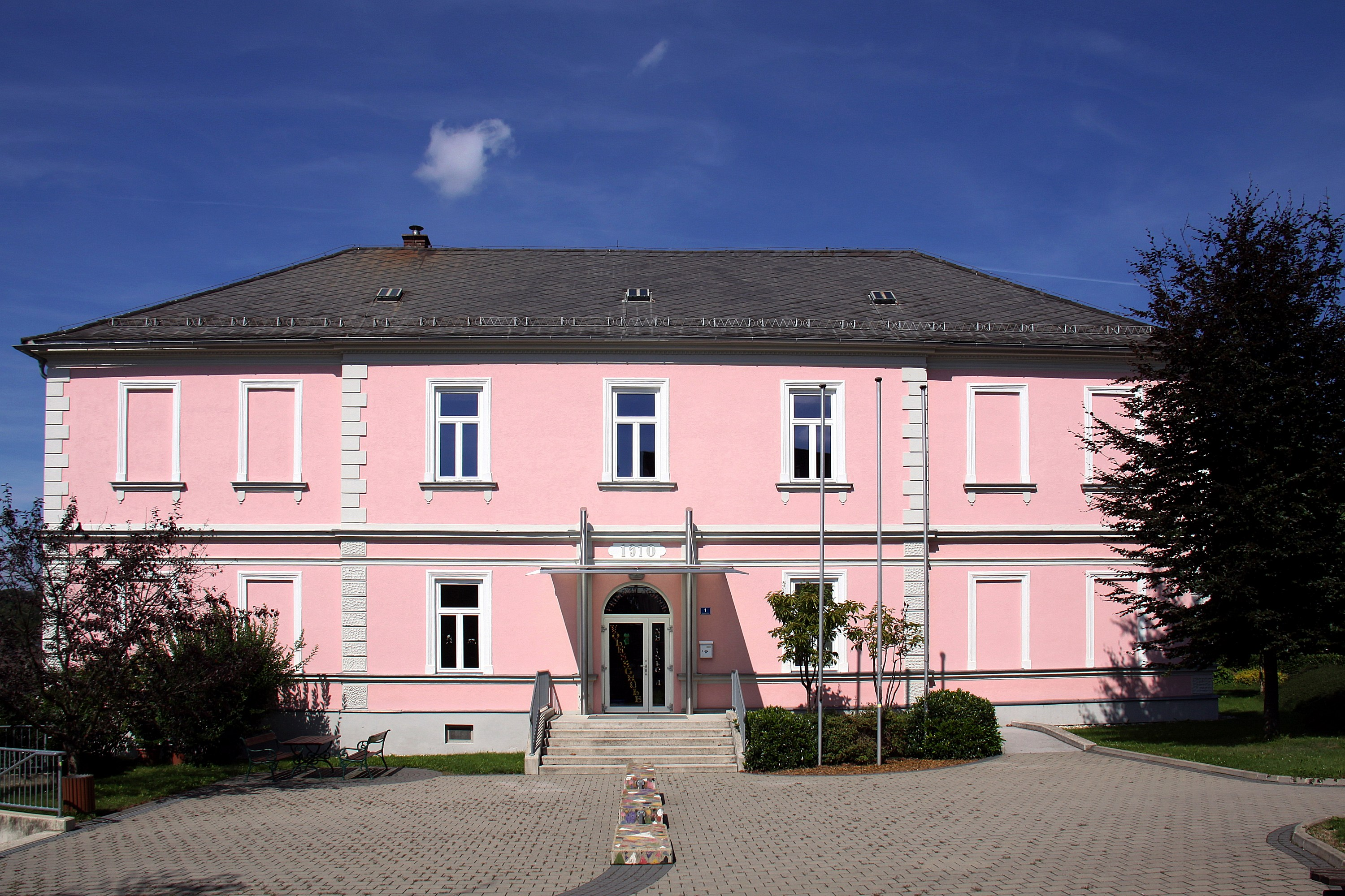 Wolfau - Elementary school, built 1910 Object location47° 15′ 29.76″ N, 16° 05′ 48.25″ E